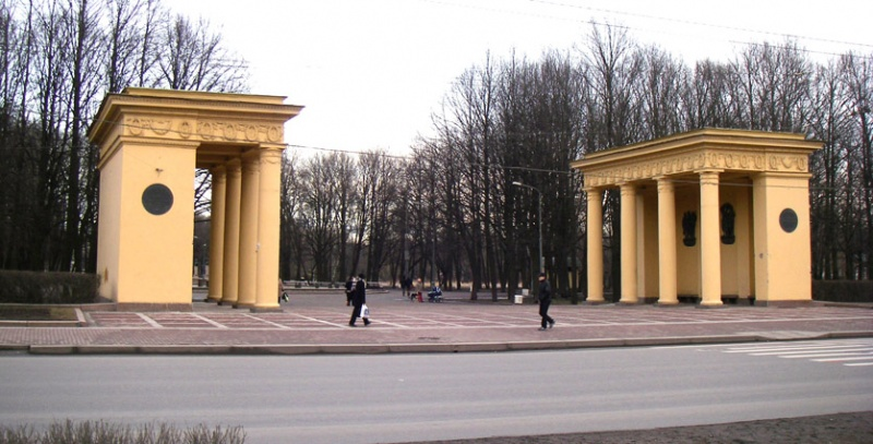 Propylaea of the main entrance to Moskovsky Park Pobedy (Victory Park) (St. Petersburg, Russia)